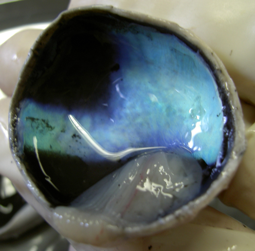 Calf eyeball from a dissection done at University of Pennsylvania on 2005 Oct 13. In this photo, the retina has been loosened from the back of the eye and is hanging down (pinkish gray), revealing the tapetum lucidum (opalescent turquoise). The retina is still attached firmly to the optic nerve. Permission is granted by Mark Fickett (the photographer and student/dissector) to use, modify, and distribute this image so long as attribution to him is maintained. (Notification upon use is requested but not required.)